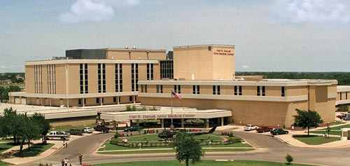 Carl R. Darnall Army Medical Center